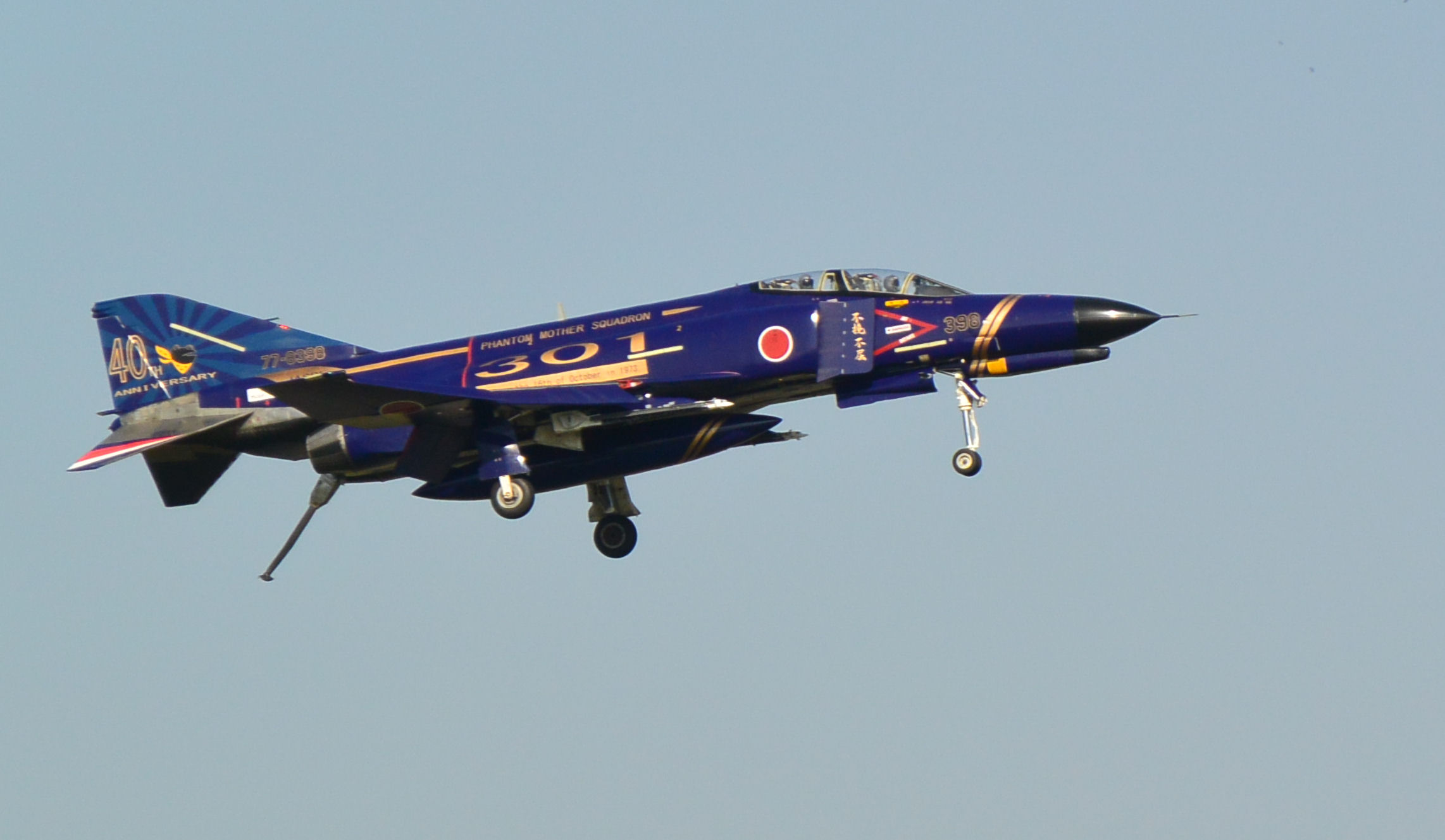 Special painted F-4EJ 40th anniverary of 301st Tactical Fighter Squadron